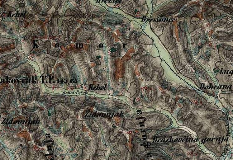 Kebel teritory, Habsburg monarchy 2nd military survey 1865.